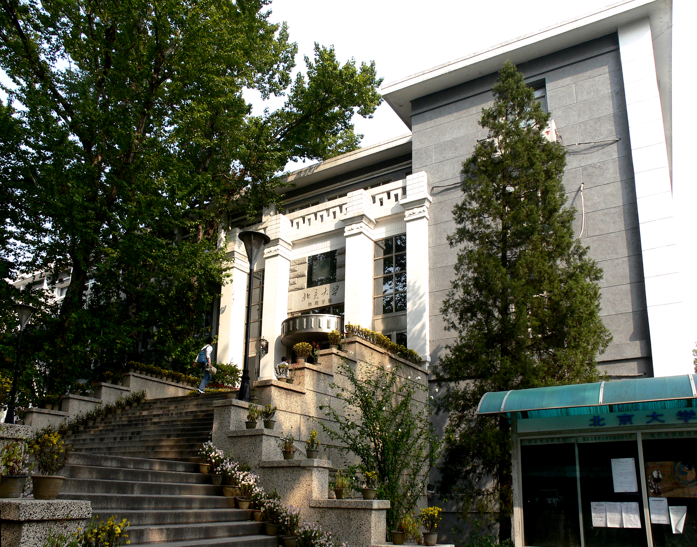 Department of Physics at the Peking University